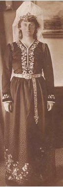 Alexandrine of Mecklenburg-Schwerin in Icelandic National dress Skautbúningur